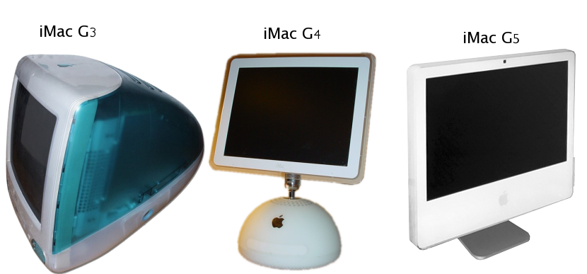 history of iMac